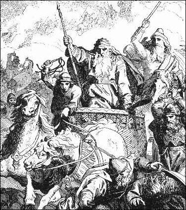 The legendary swedish/danish warrior king Harald Hildetann